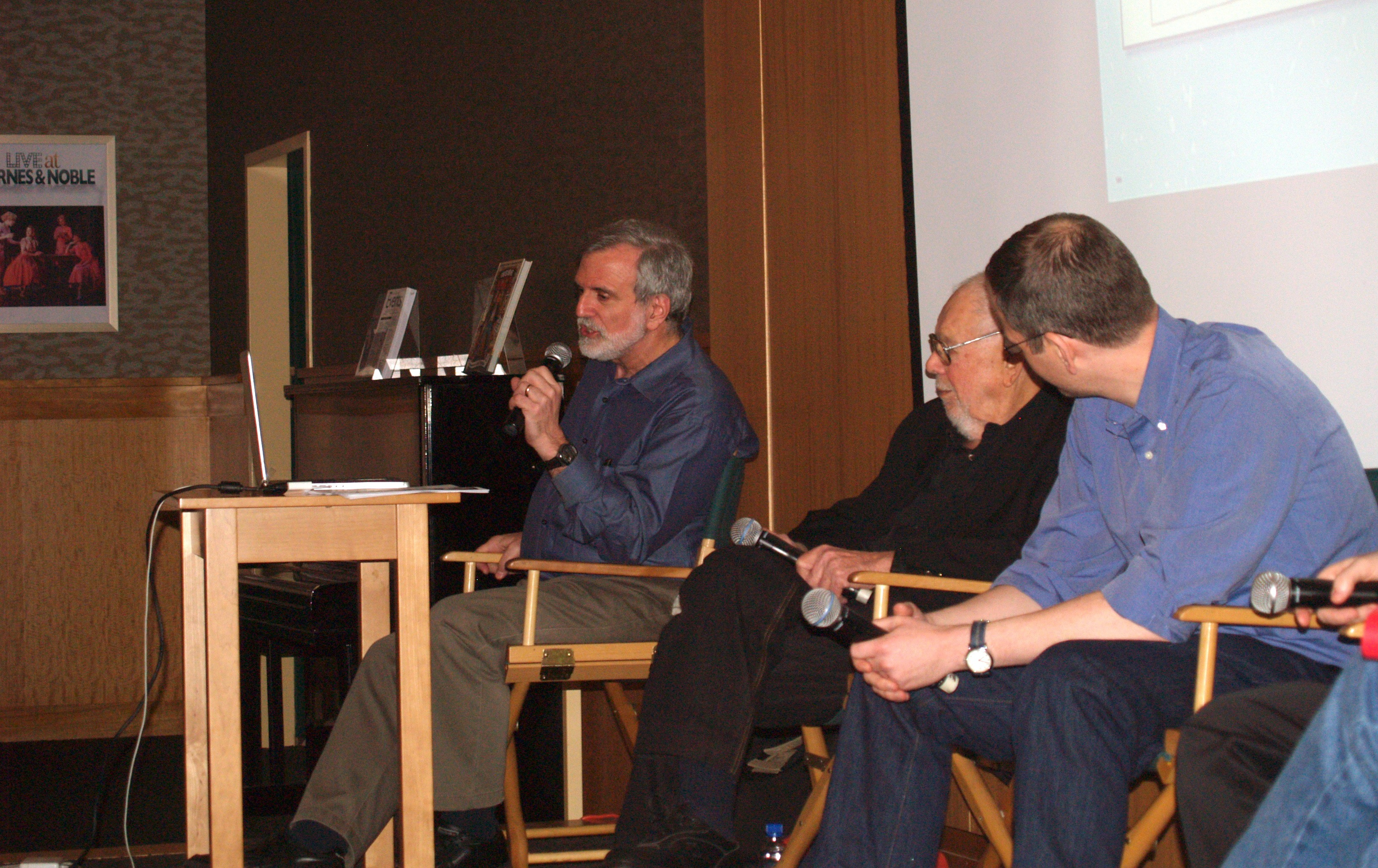 Caricaturist and Mad magazine art director Sam Viviano, cartoonist Al Jaffee and Emmy Award-winning Daily Show and Mad writer Tim Carvell at a November 13, 2013 visual presentation and Q&A session for Inside Mad, a collection of material from the magazine, at the Barnes & Noble bookstore on East 86th Street in Manhattan. The Q&A was followed by a book signing. This photo was created by Luigi Novi. It is not in the public domain, and use of this file outside of the licensing terms is a copyright violation.